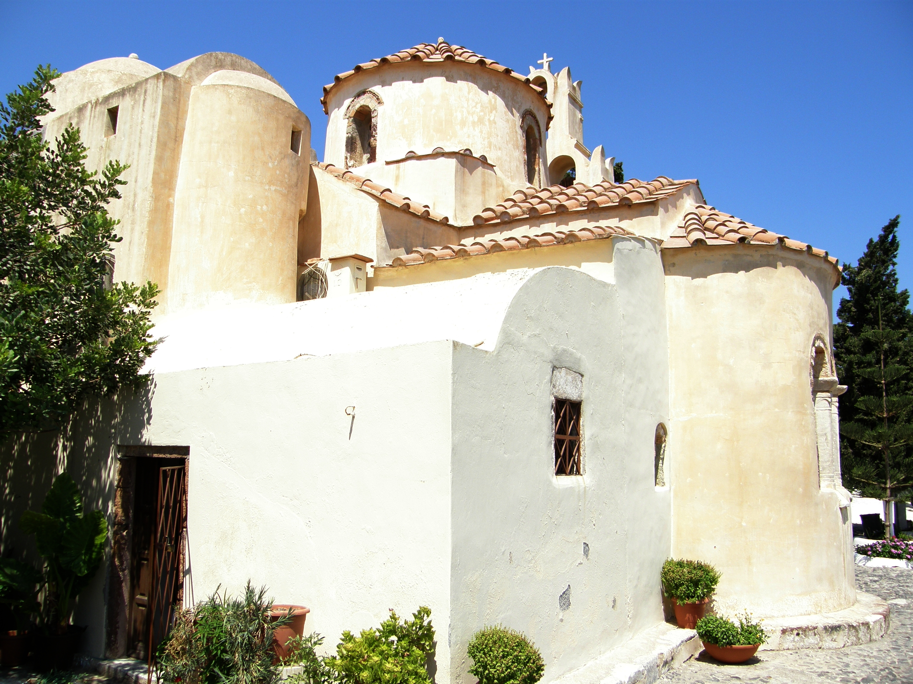 The old episcopical church of Santorini... (Scrutinizing my old photos)